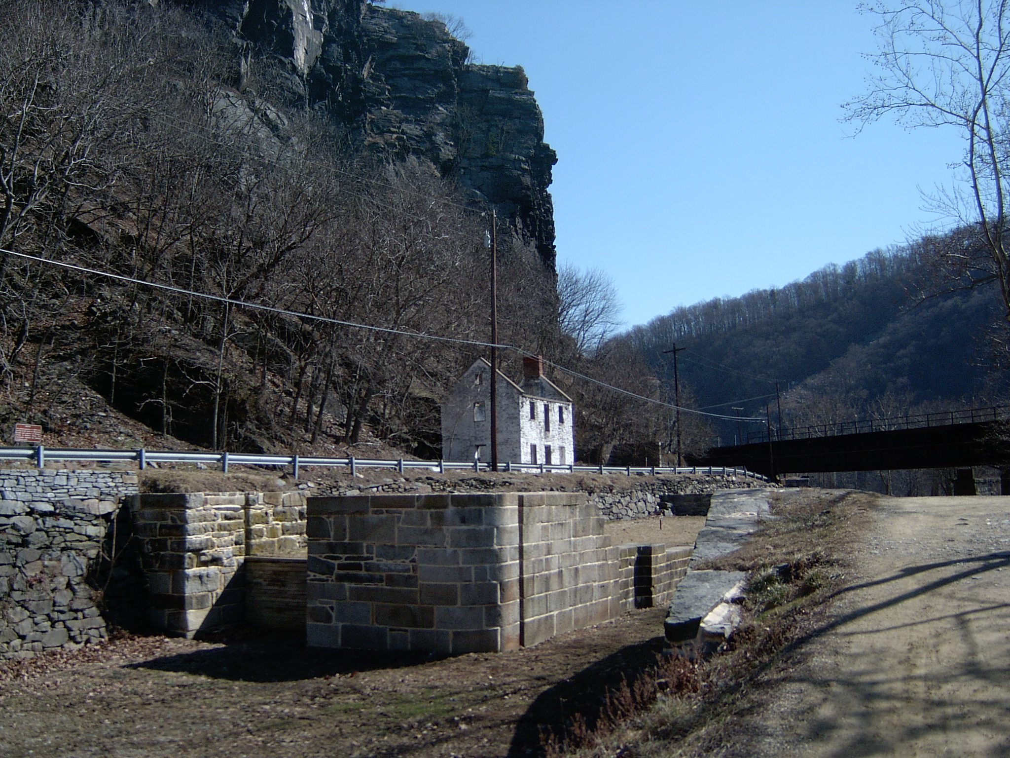 Lock 33 along the Chesapeake & Ohio Canal near Harpers Ferry, West Virginia.